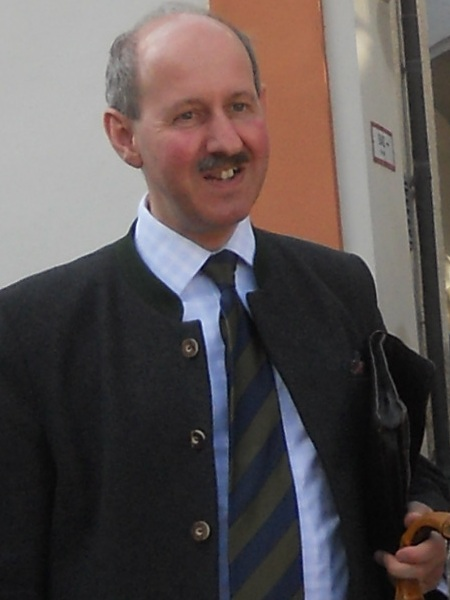 Dieter Joachim Weiß (Andechs Abbey, July 16, 2012)